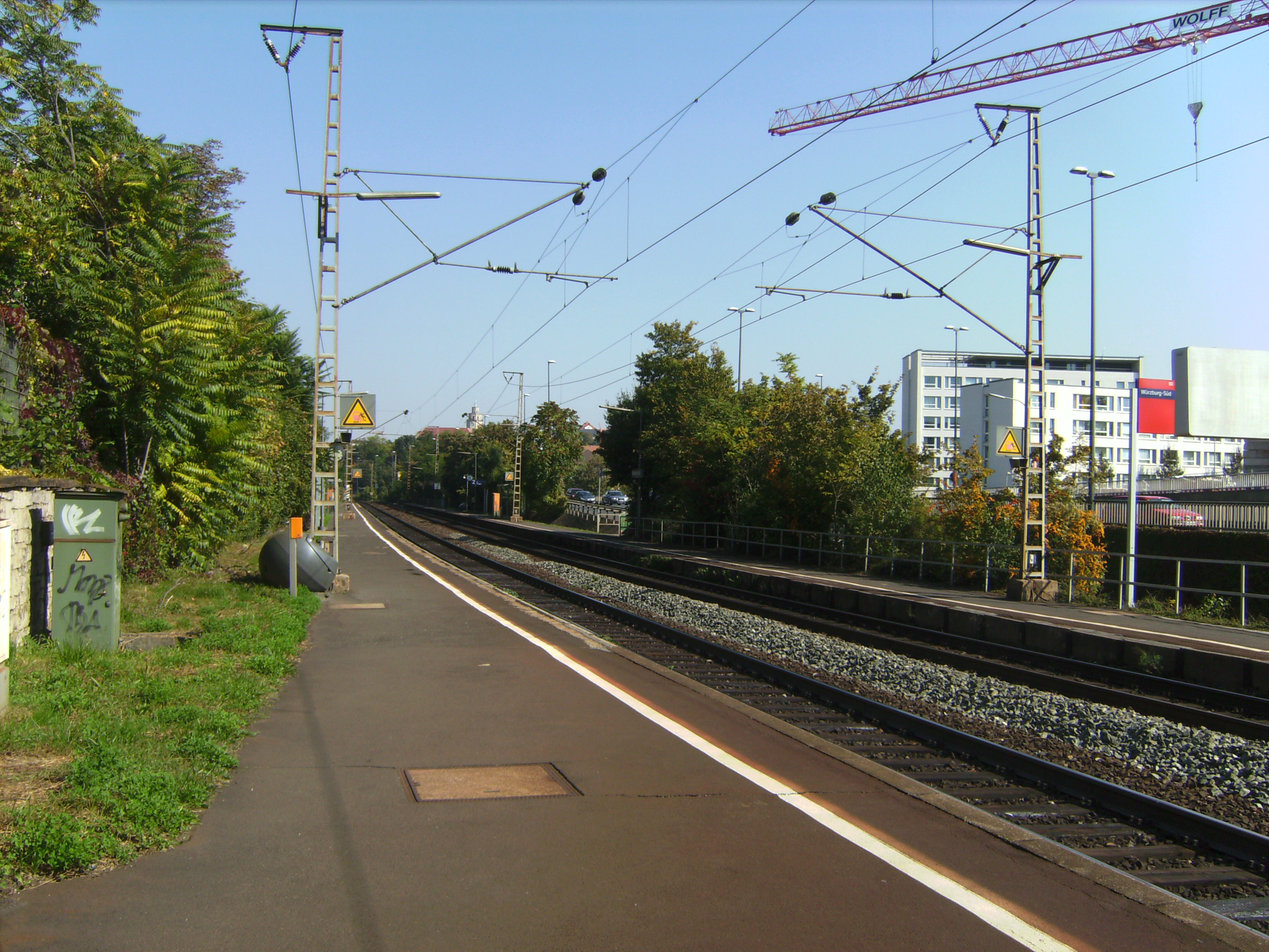 The platforms of the railway station Würzburg-Süd - view in direction of the tracks to Würzburg main station